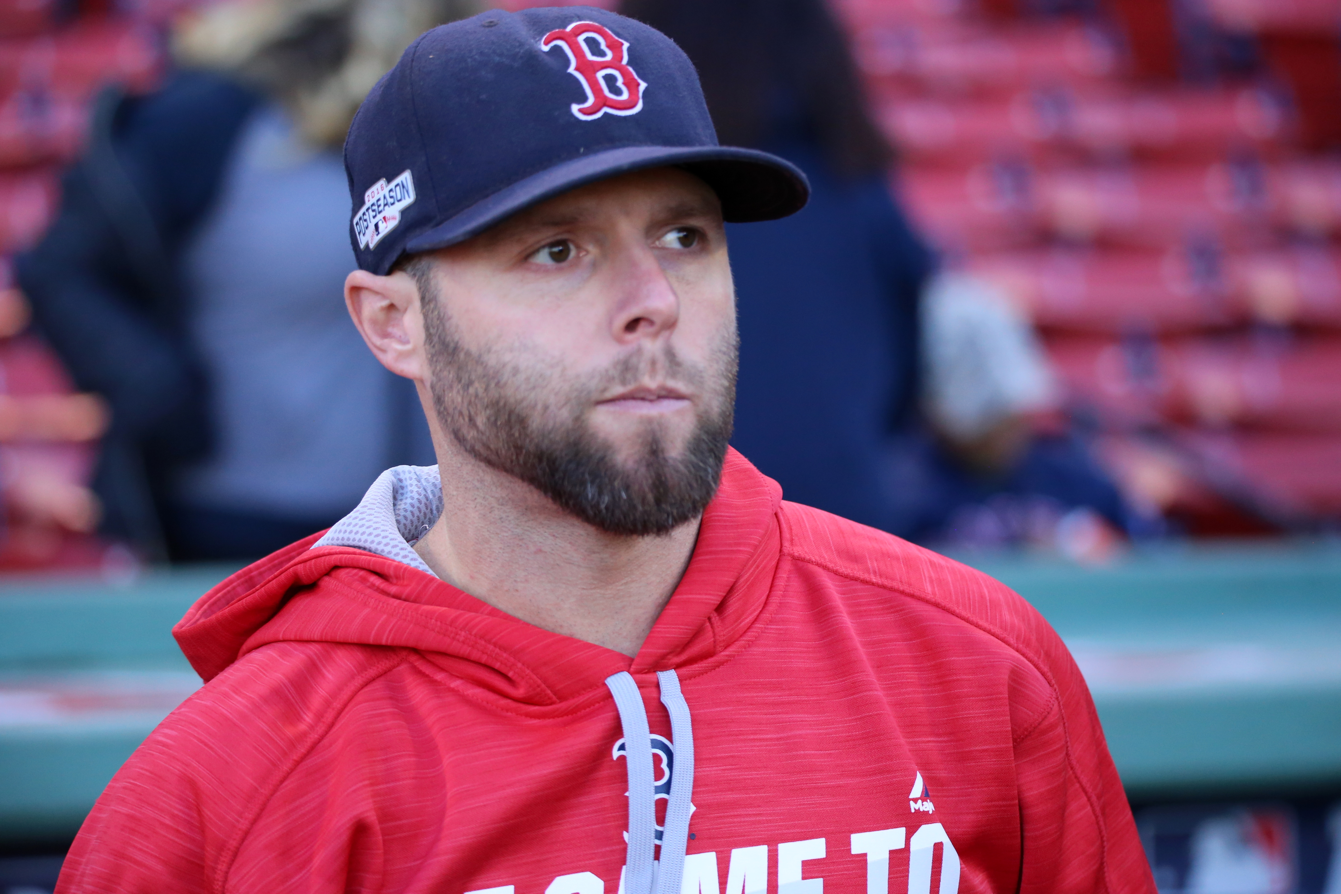 Red Sox second baseman Dustin Pedroia arrives for batting practice before ALDS Game 3 at Fenway Park.